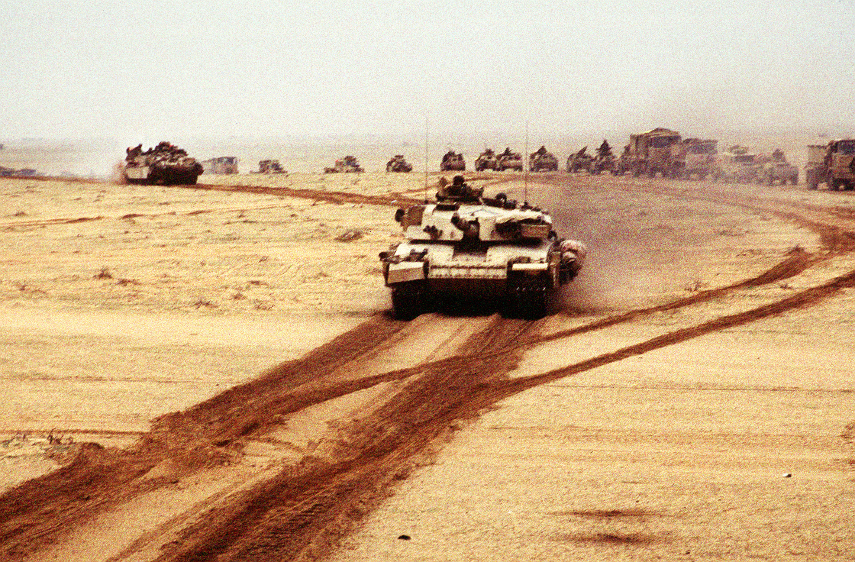 A British Challenger 1 main battle tank moves along with other Allied armor during Operation Desert Storm.